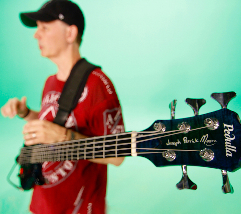 A selfie of Joseph Patrick Moore, 2014